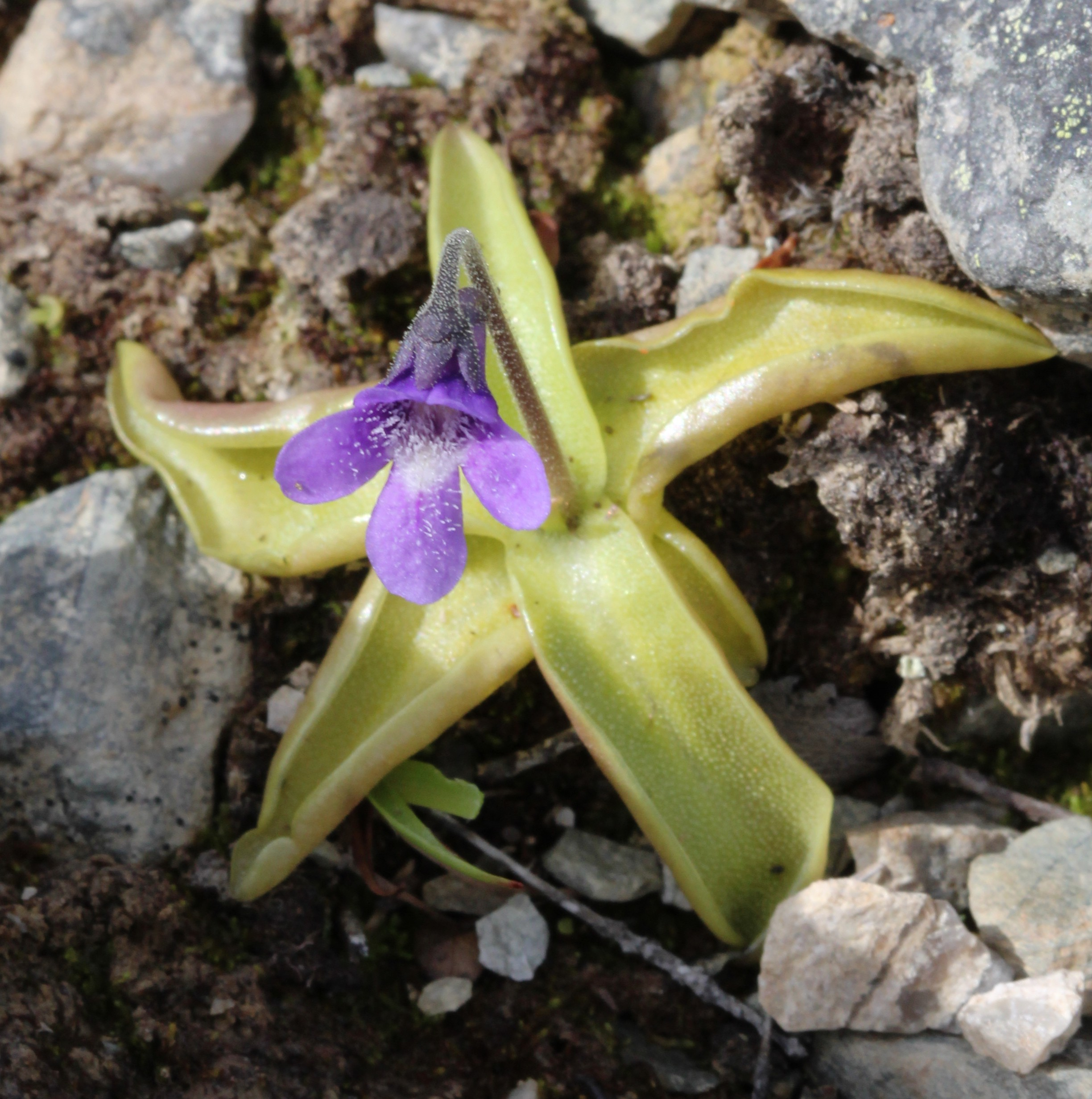 Pinguicula vulgaris